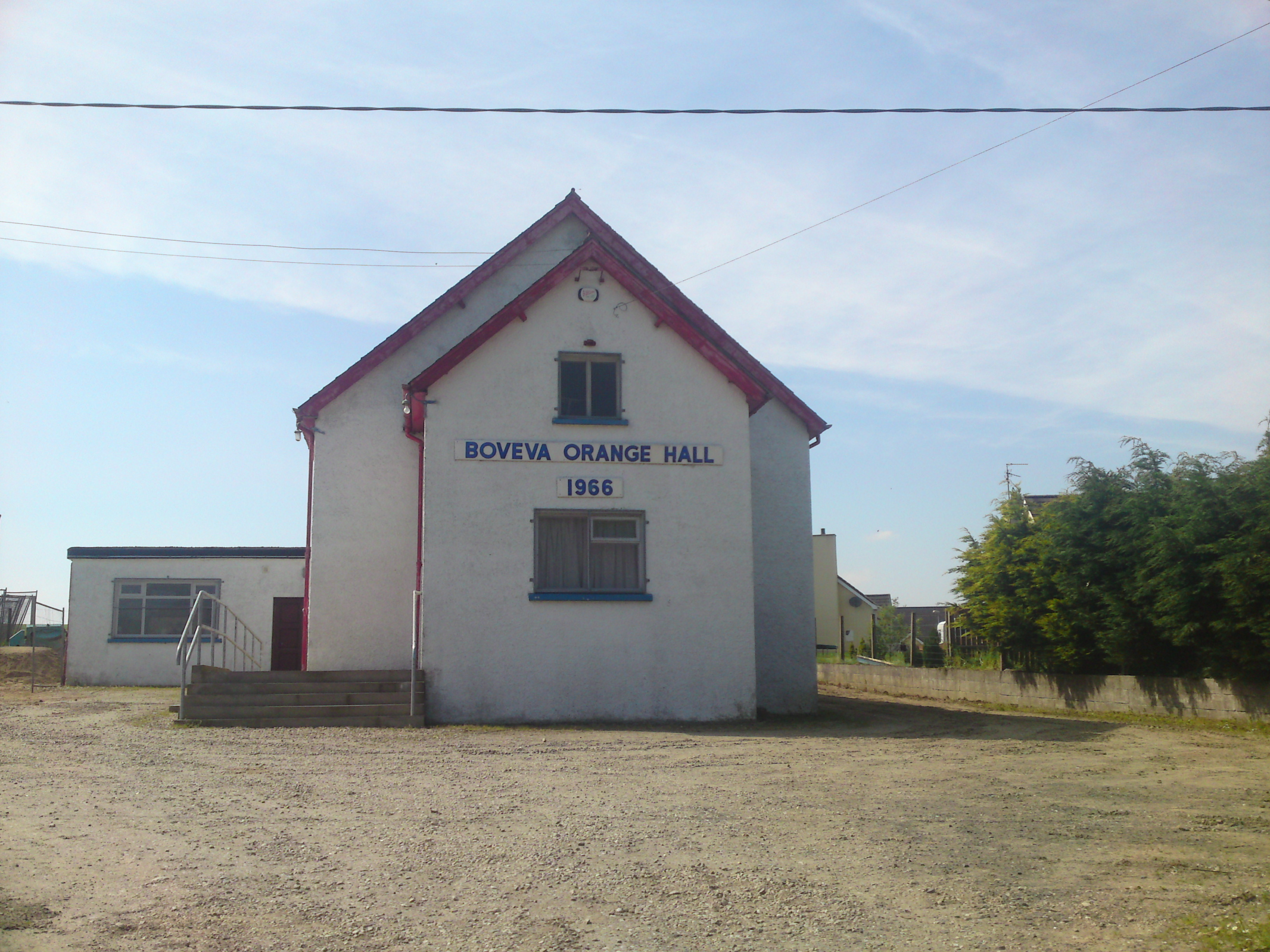 Boveva Orange Hall in Burnfoot,a small village 3 miles from Dungiven.